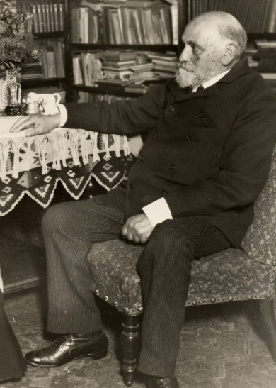 Anton Bettelheim (1851–1930), Viennese literary scholar, translator and journalist